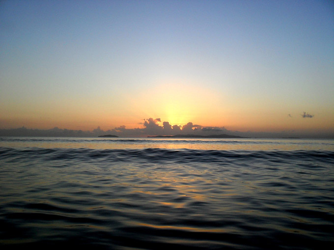 Great Keppel Island at sunrise taken from Mulambin Beach Yeppoon April 2012